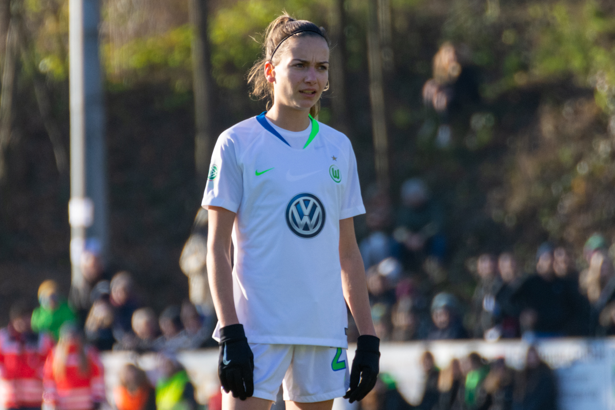 Joelle Wedemeyer during the DFB-Pokal match vs FC Forstern